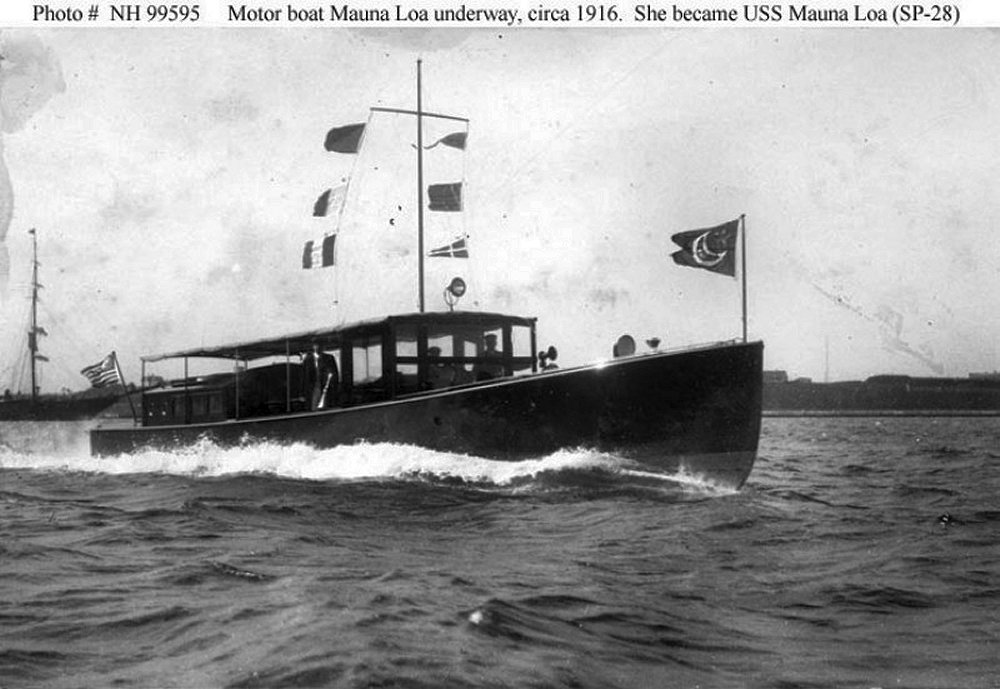 Motorboat Mauna Loa, prior to her 1917-1919 United States Navy service as USS Mauna Loa (SP-28)